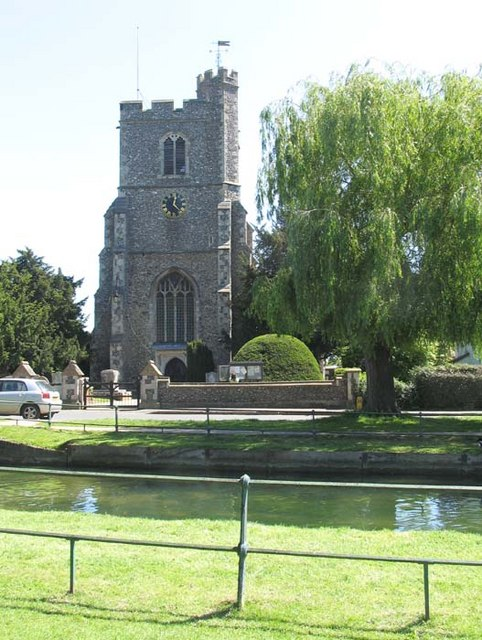 St Augustine, Broxbourne, Herts